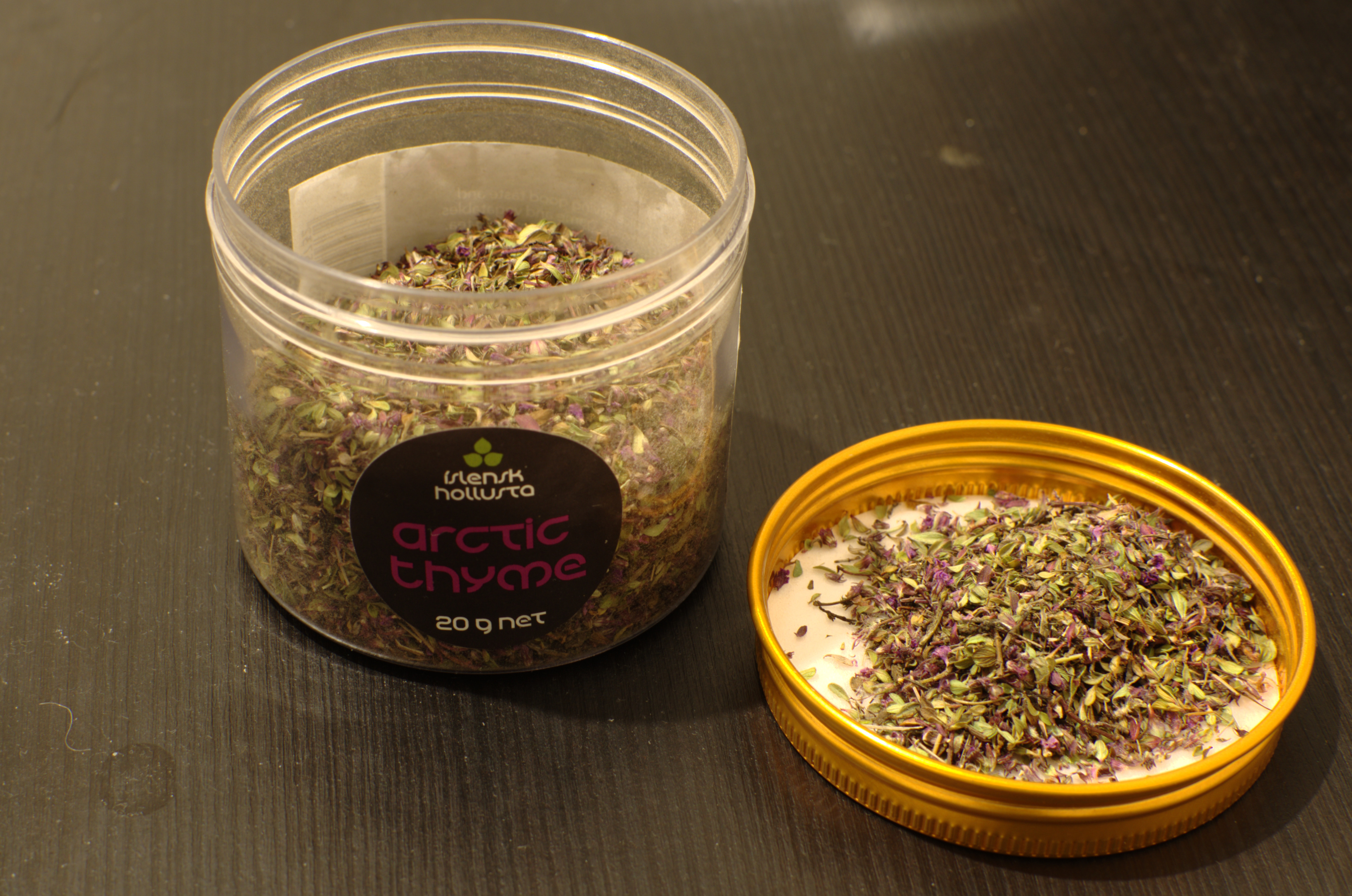 Bought from a souvenir shop in Iceland in 2019. Back label suggests using it as a spice or brewing herbal tea.